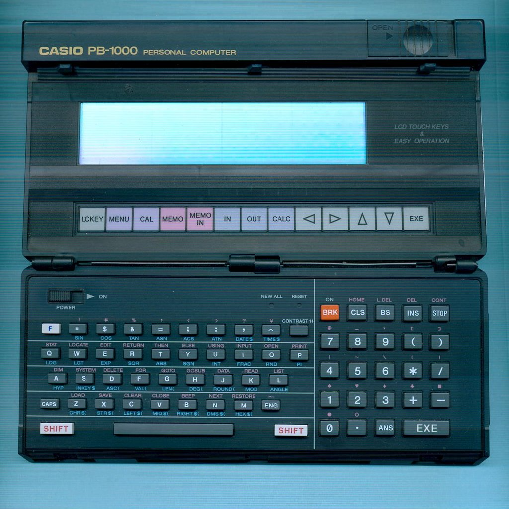 Casio PB 1000 model